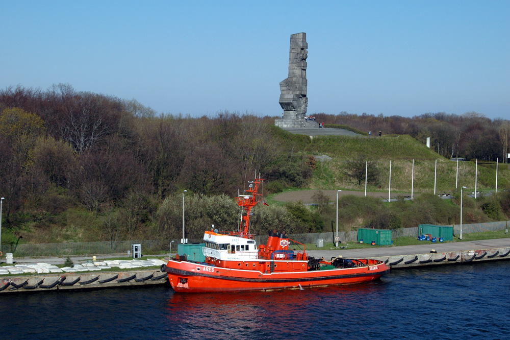 Gdansk harbour - Westerplatte Monument.